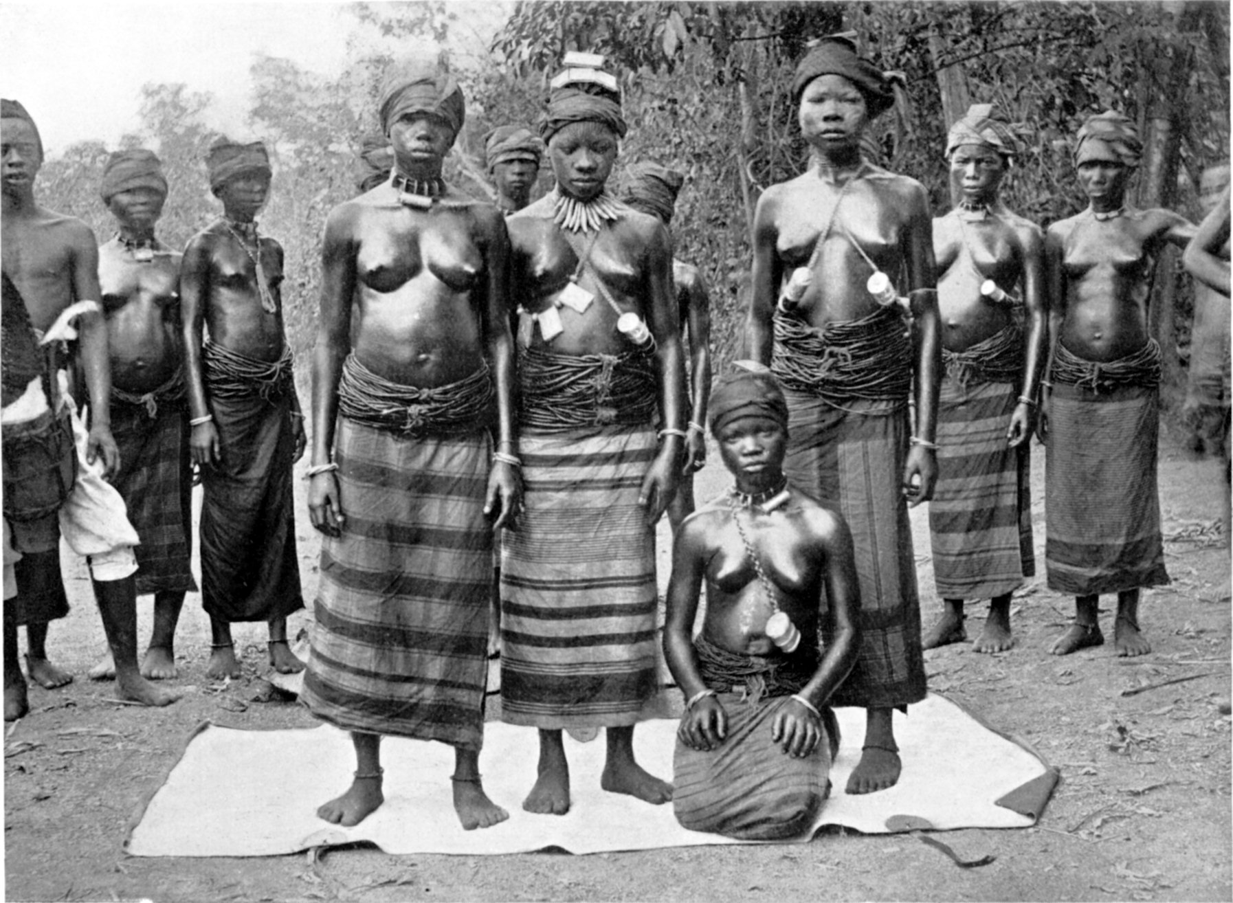 Bundu girls oiled Before the establishment of British rule the Mendi chiefs governed entirely through the secret societies, which even now have great power. The Bundu is the society for women, and the majority join, as the membership confers a certain status on them with proportionate privileges.